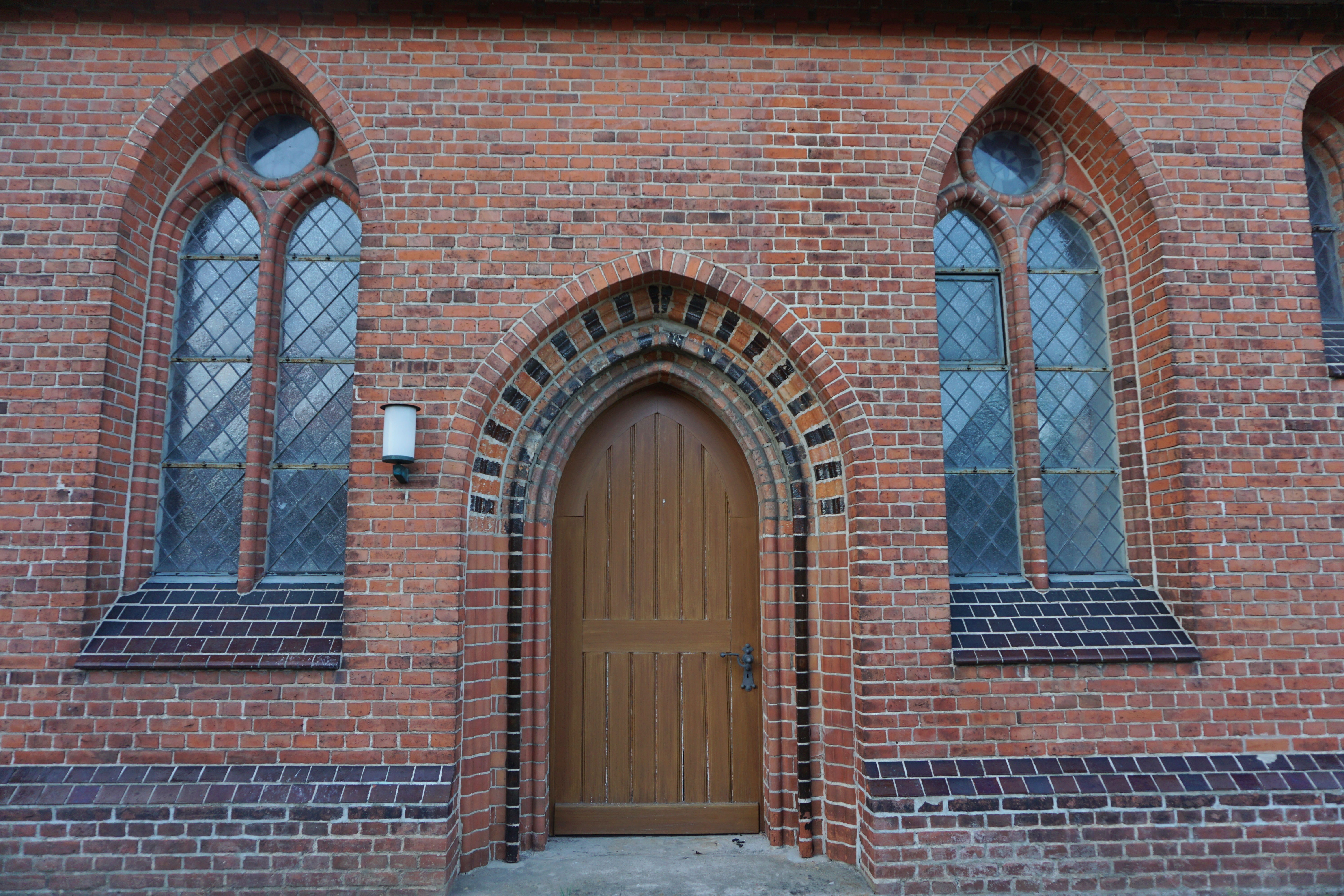 Entrance portal of the Chapel of Our Lady in Riestedt a district of Uelzen in Lower Saxony.